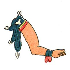 The Aztec glyph for Acolhuacan